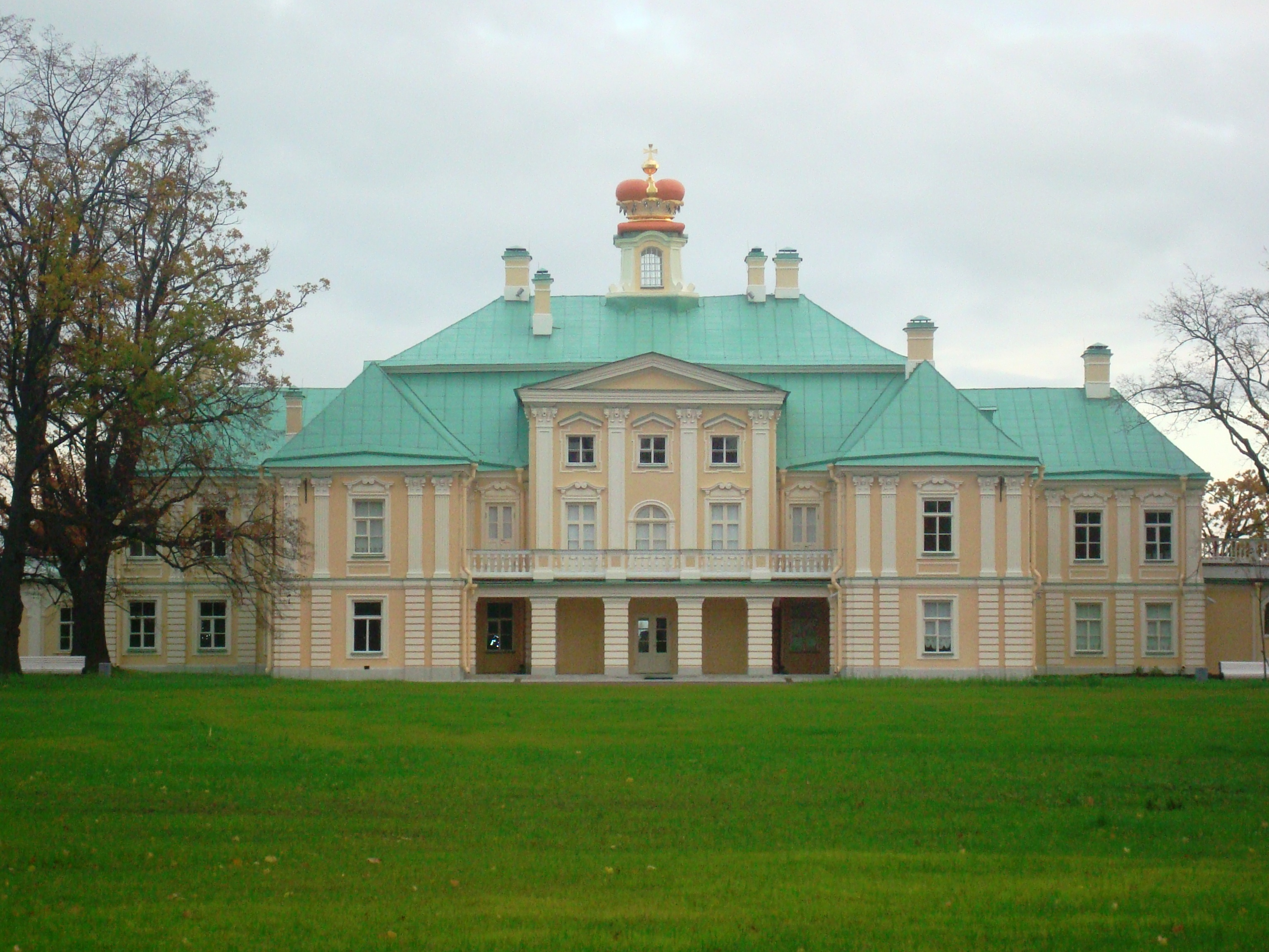 The south facade of the Grand Menshikov Palace in Oranienbaum, Russia